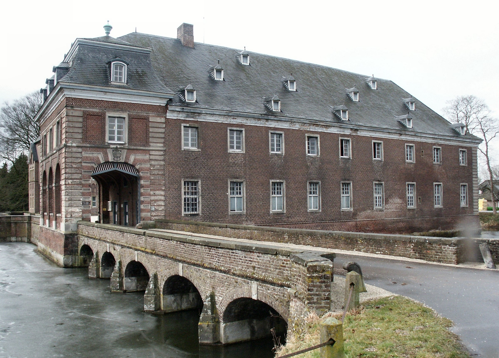 Wissen Castle - portal with arch bridge